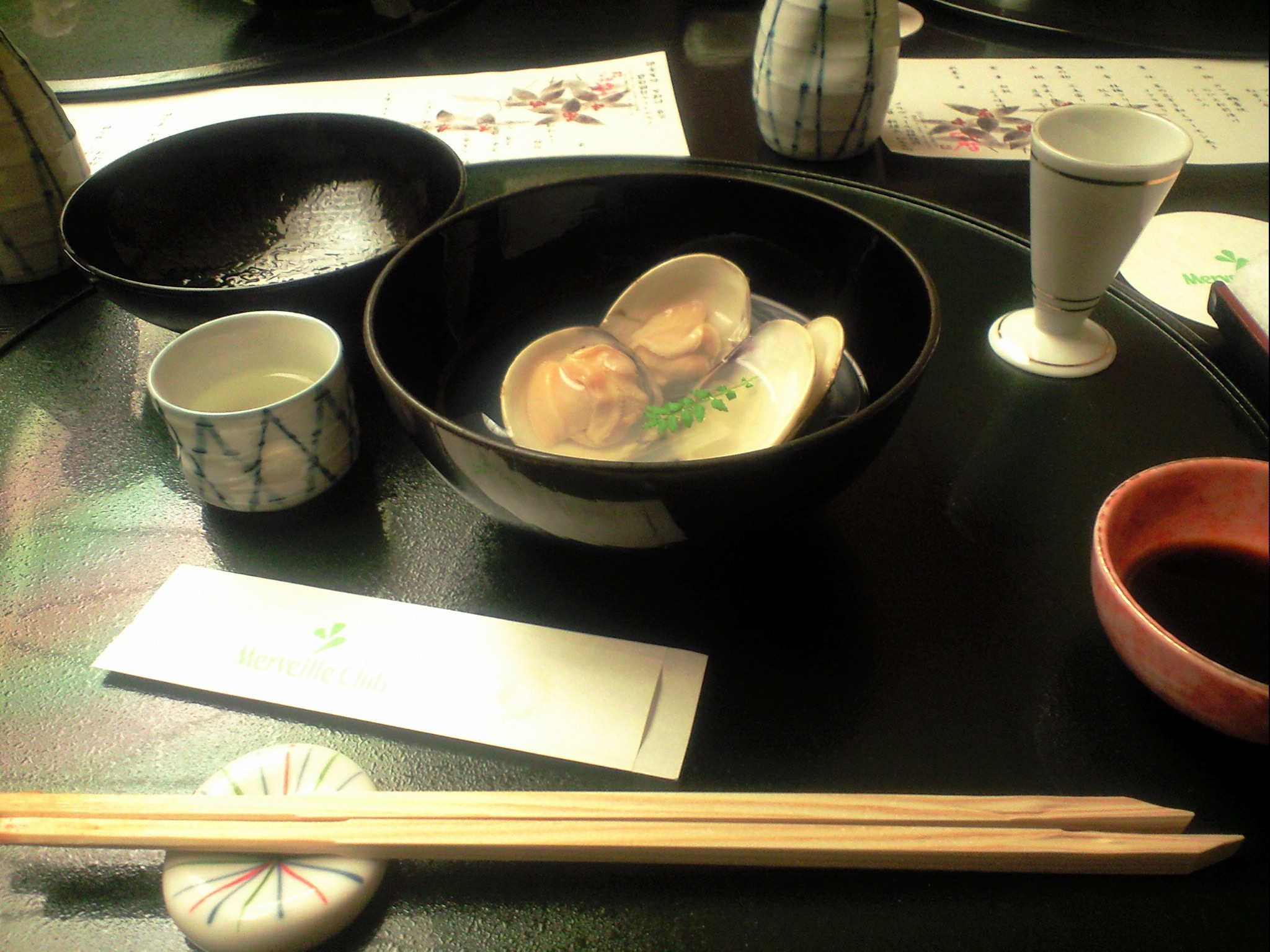 ushiojiru